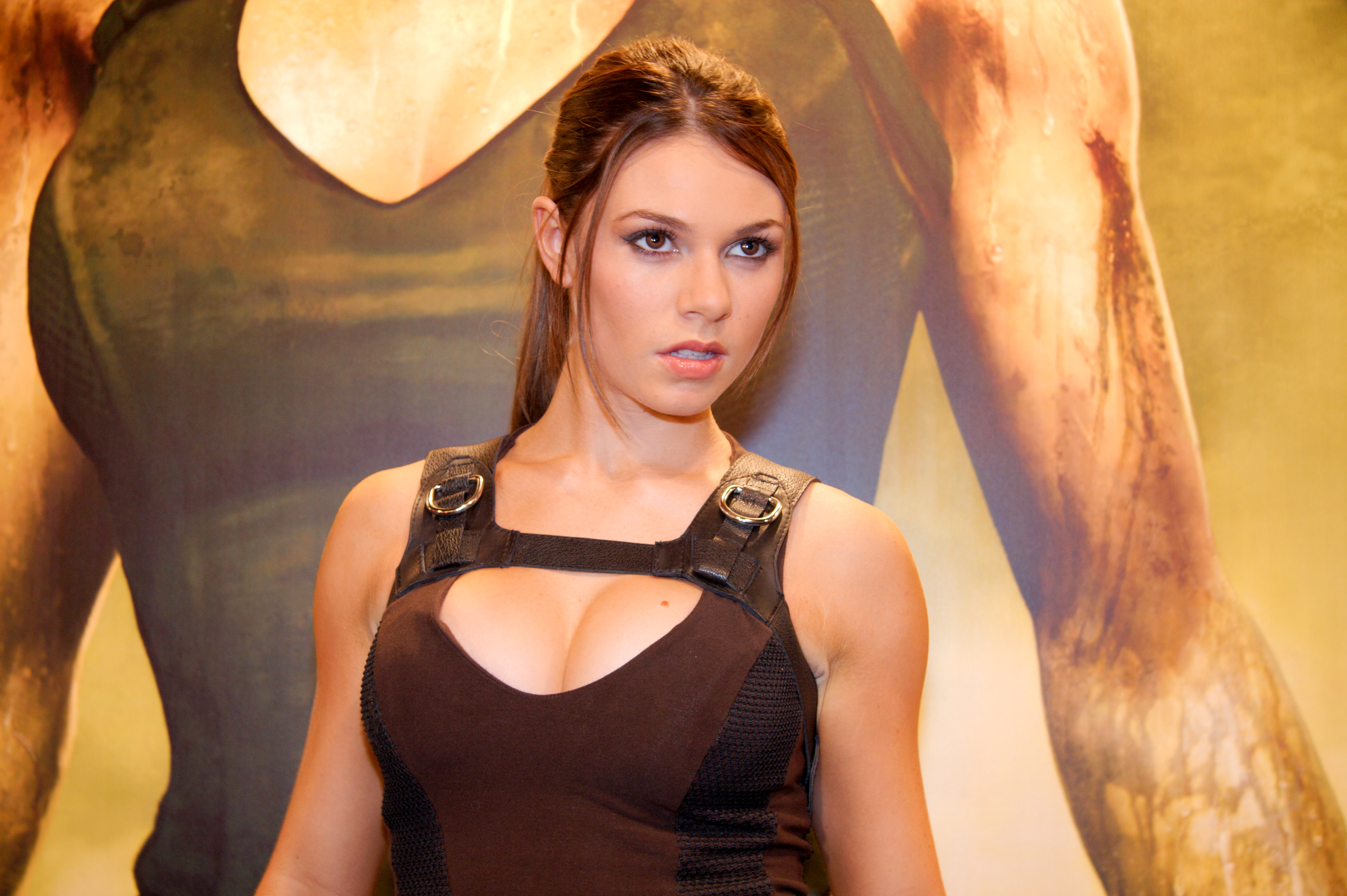 Alison Carroll, the official Lara Croft model for Tomb Raider: Underworld at Festival du jeu vidéo 2008 (Paris, France).